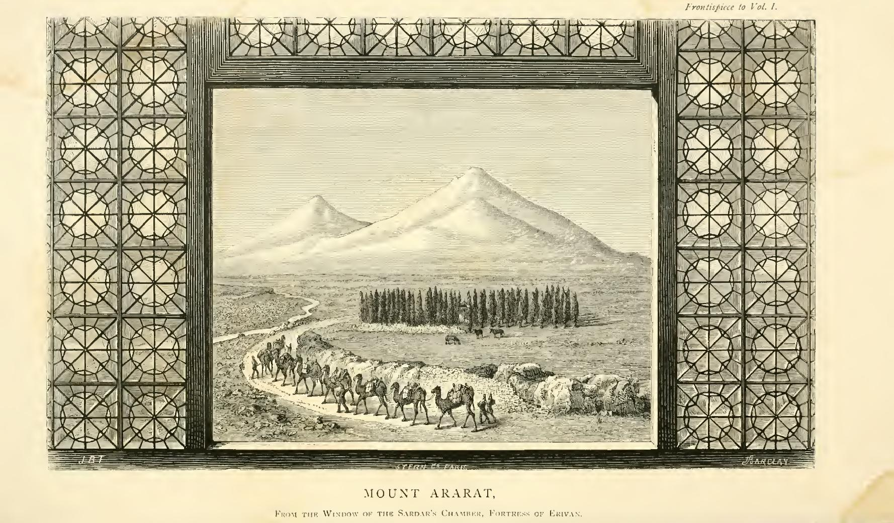 Mount Ararat. From: Telfer, John Buchan (1876), The Crimea and Transcaucasia; being the narrative of a journey in the Kouban, in Gouria, Georgia, Armenia, Ossety, Imeritia, Swannety, and Mingrelia, and in the Tauric range. London: H.S. King & Co.